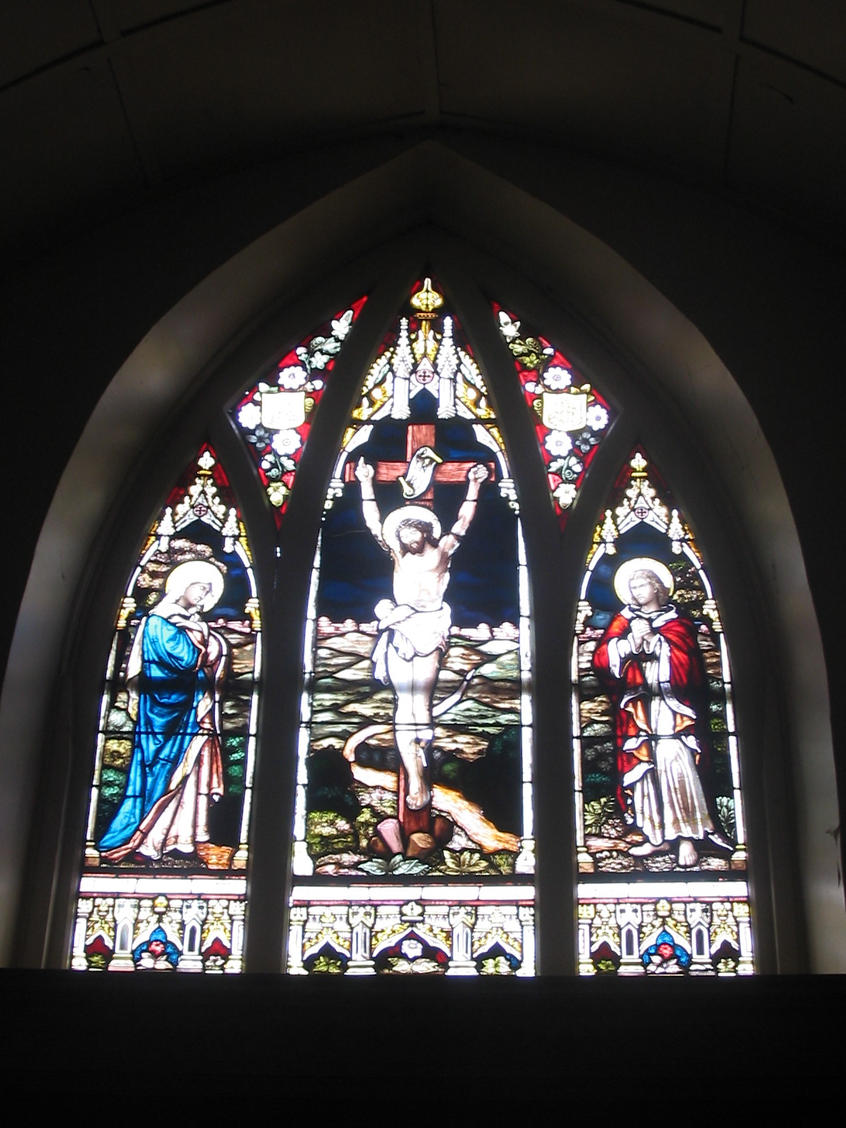 The stained glass window above the altar at St. Stephen's Anglican Church, Buckingham, QC